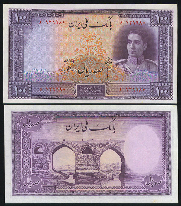 100 Rials banknote Mohammad Reza shah 1944